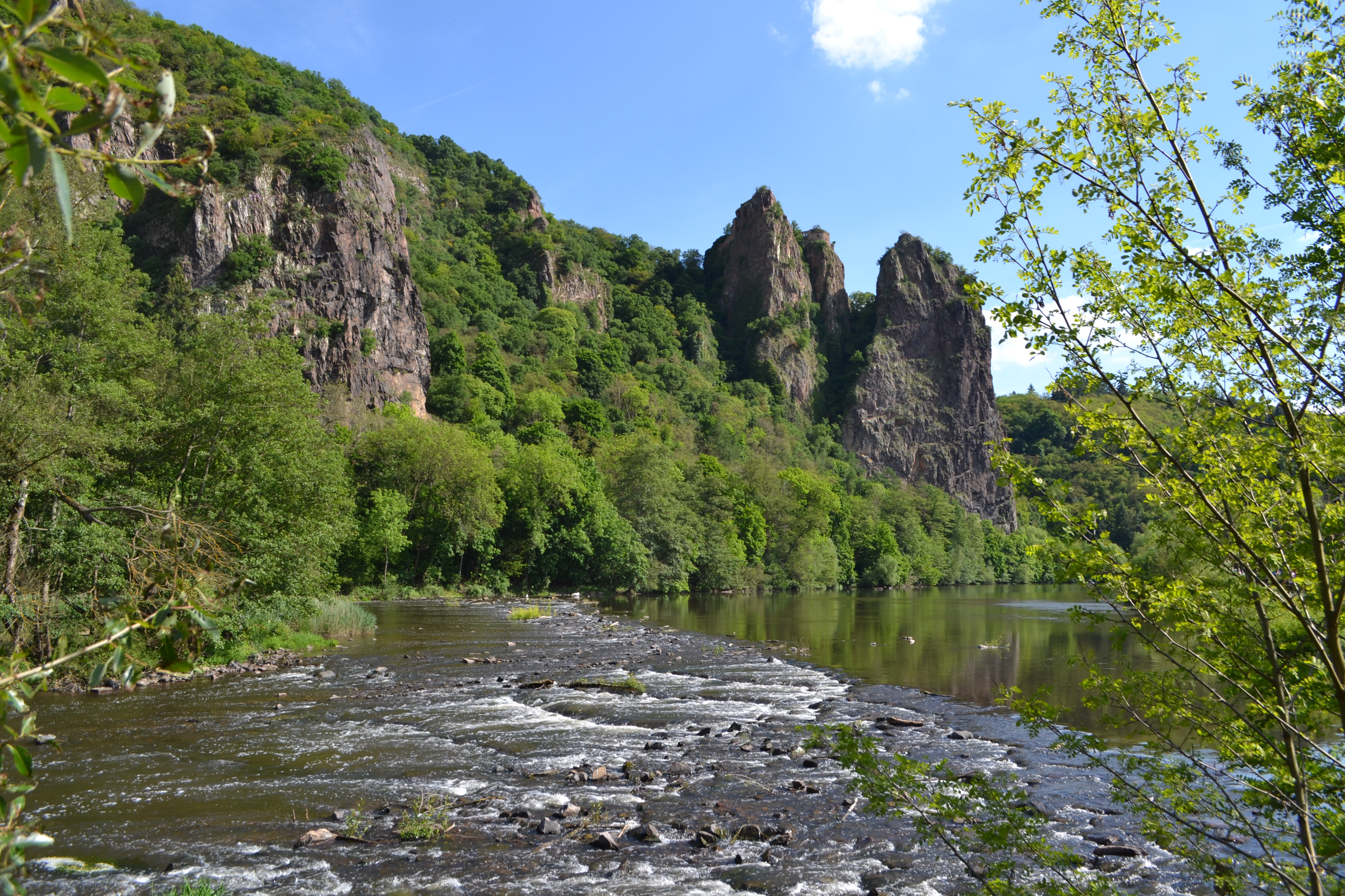 View on the river Nahe and nature protection area "Gans und Rheingrafenstein" (7133-056 WDPA: 81712), Bad Muenster am Stein-Ebernburg, City Bad Kreuznach, Rhineland-Palatinate, Germany